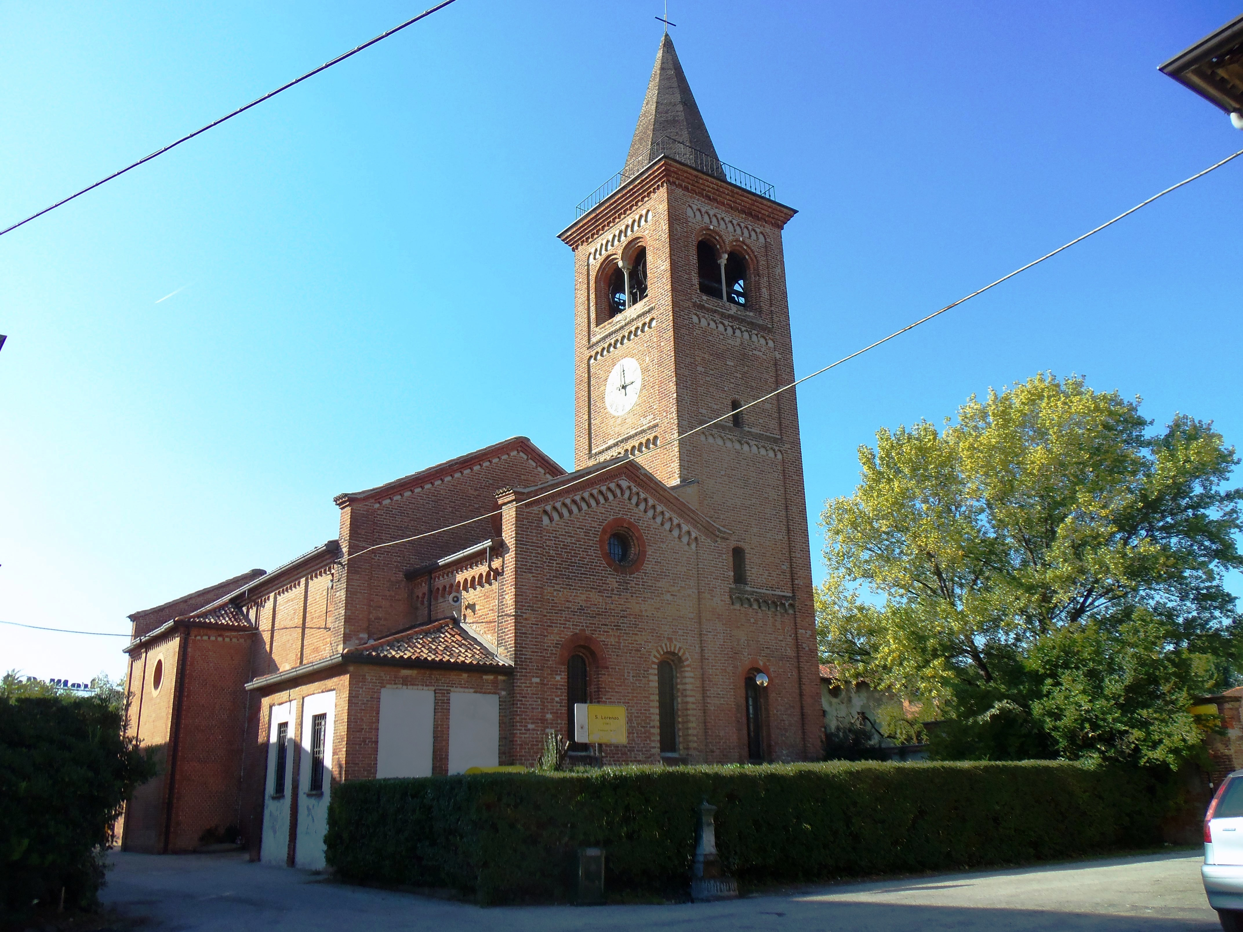 Milano, Monlué, the ancient church of San Lorenzo